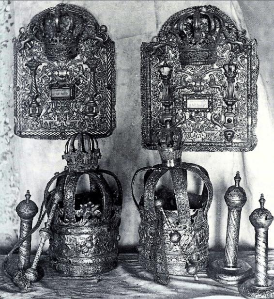 Synagogue silverware.